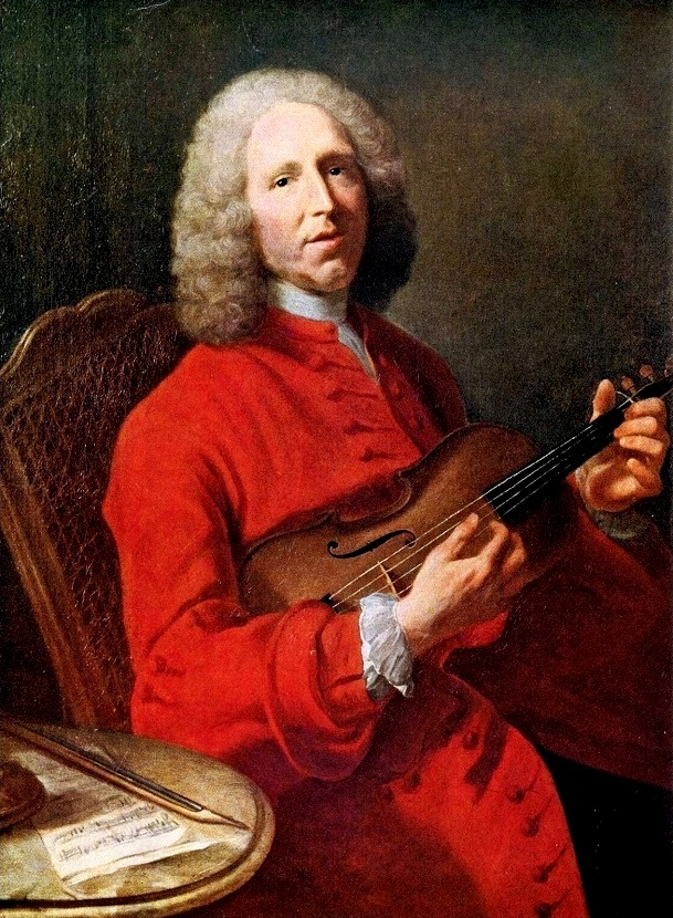 Depicted person: Jean-Philippe Rameau (1683–1764), French composer and music theorist of the Baroque era